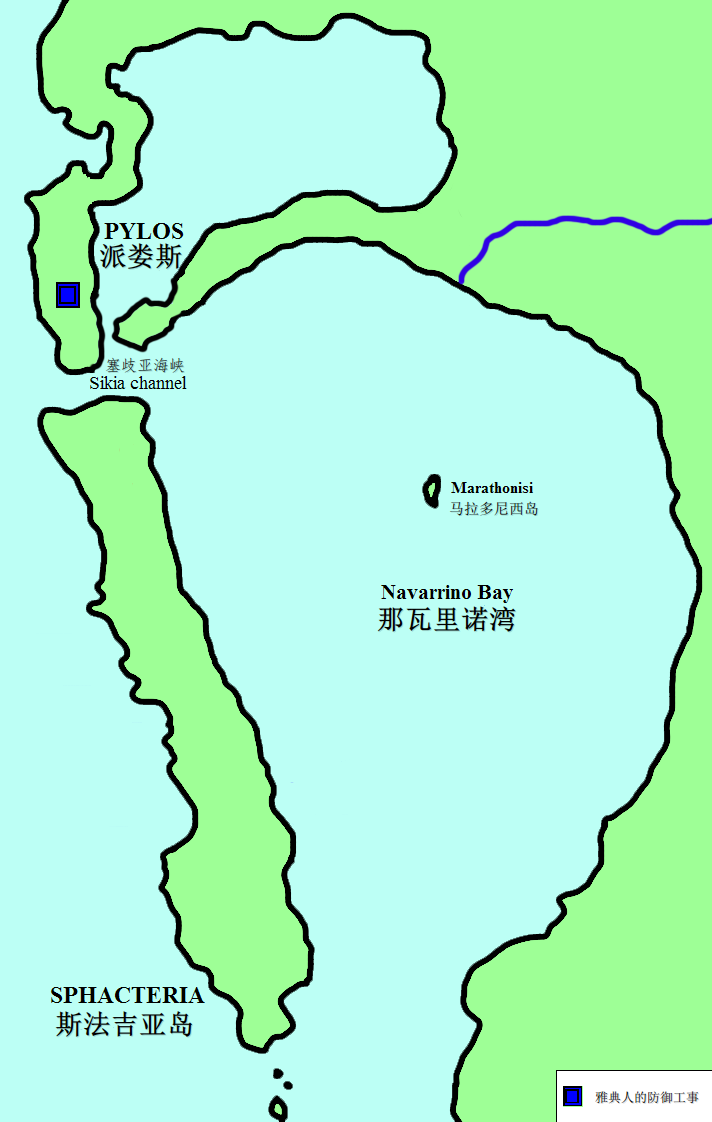 A Map of Pylos and Sphacteria Island in Ancient Greece in Chinese.